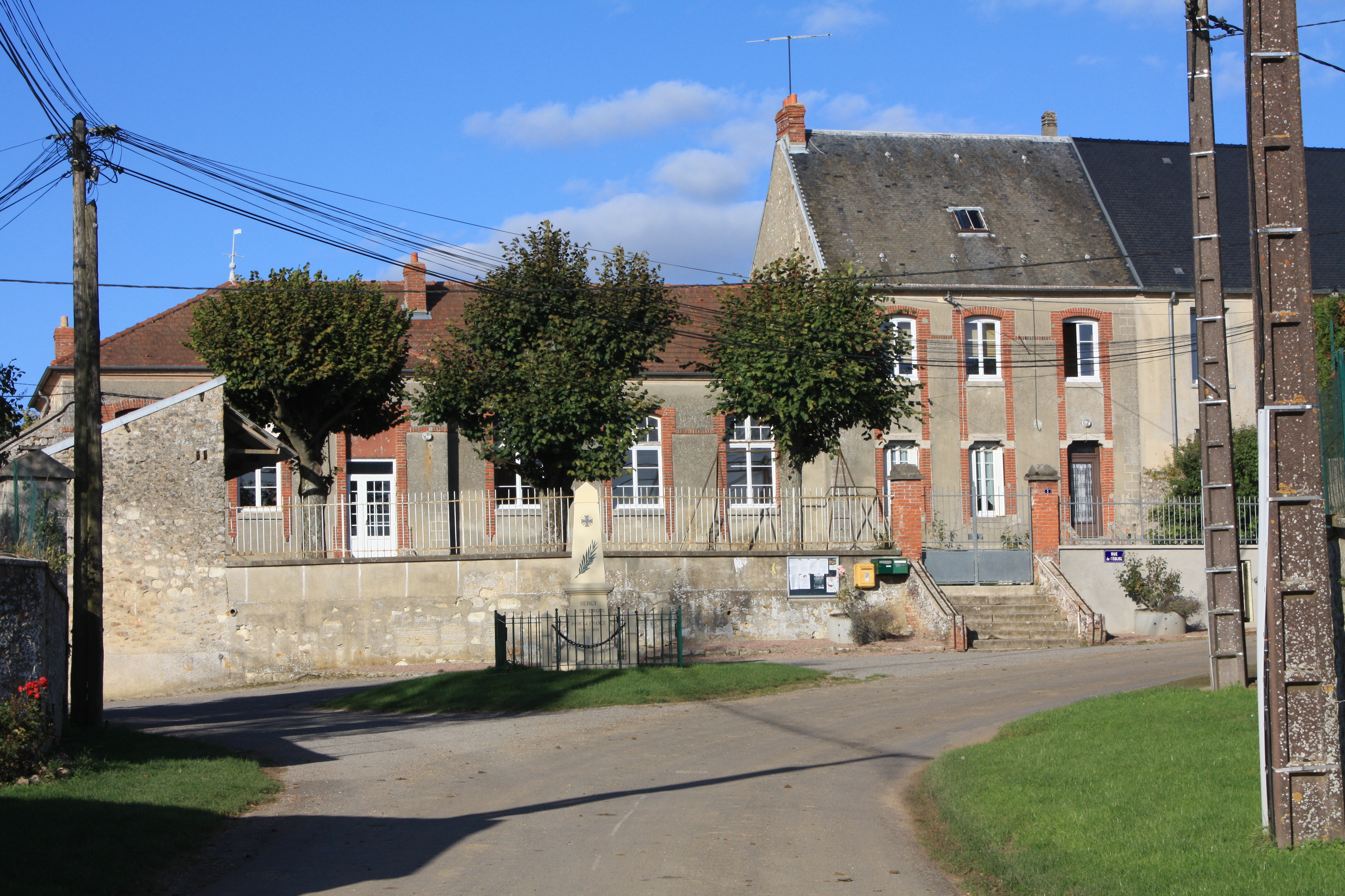 Sergy